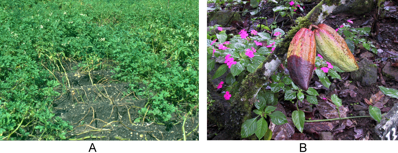 Phytophthora Infestations. (A) Potato and (B) cacao pod.